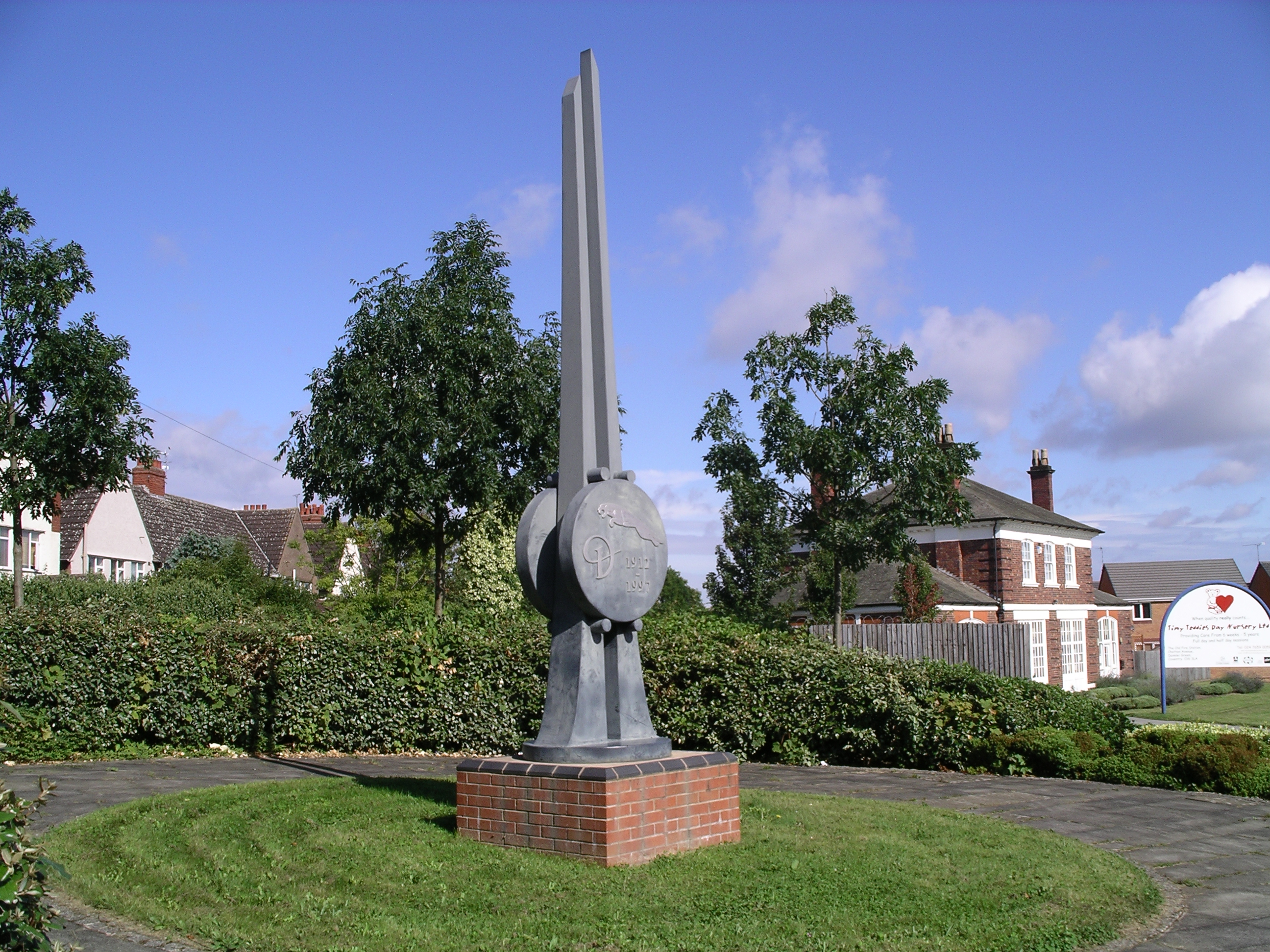 The statue in Daimler Green, Coventry, England. It denotes the Daimler factory that used to be on the site.